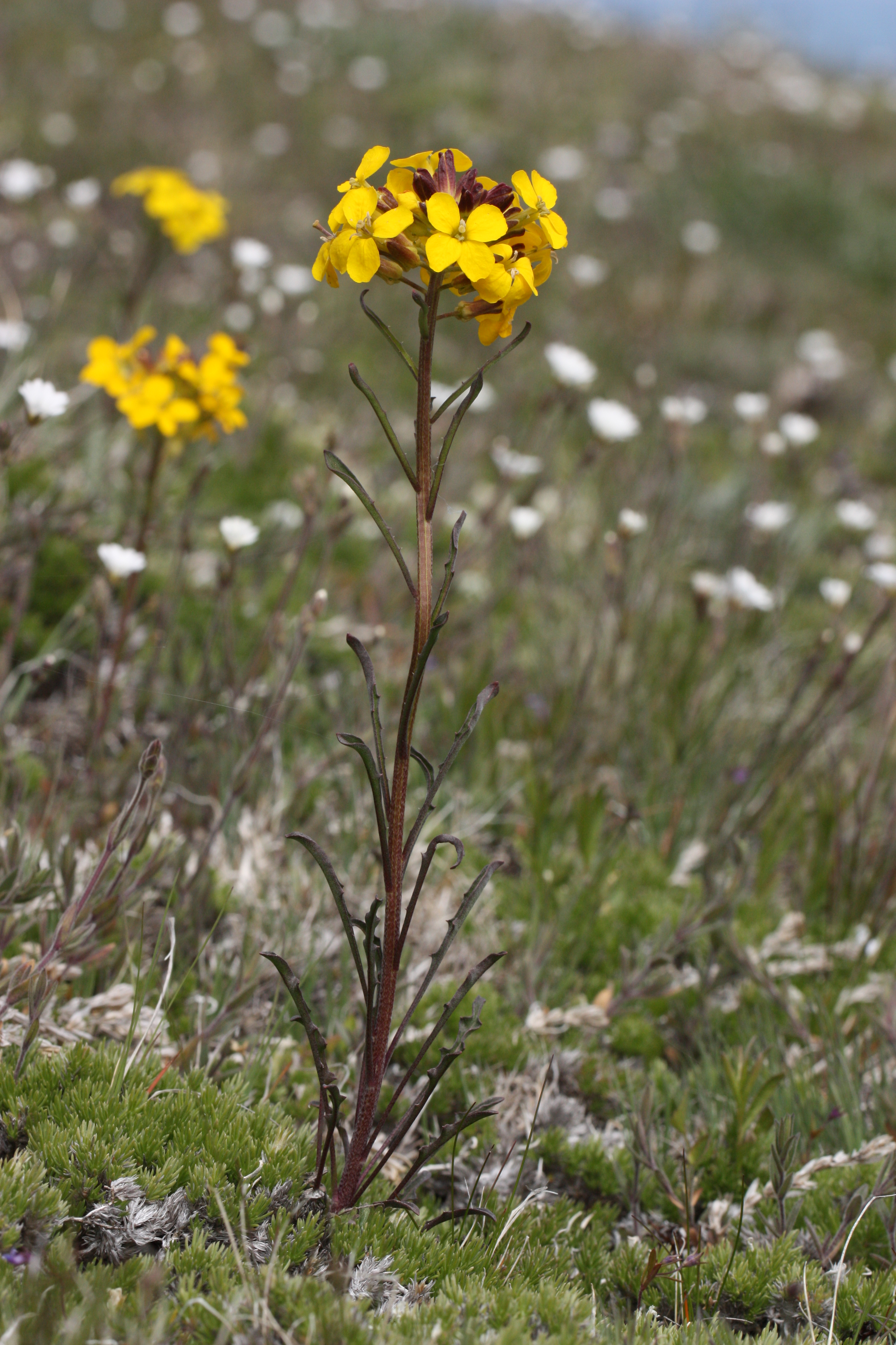 Cascade Wallflower, Sand-dwelling Wallflower Viewpoint location: Blue Mountain (6000+ feet, 1829+ m), north ridge, Olympic National Park Viewpoint elevation: 1730 meter (5675 ft) Location source: Garmin GPSmap 60CSx Location Datum: WGS84